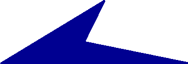 Javelin dinghy emblem Australasia